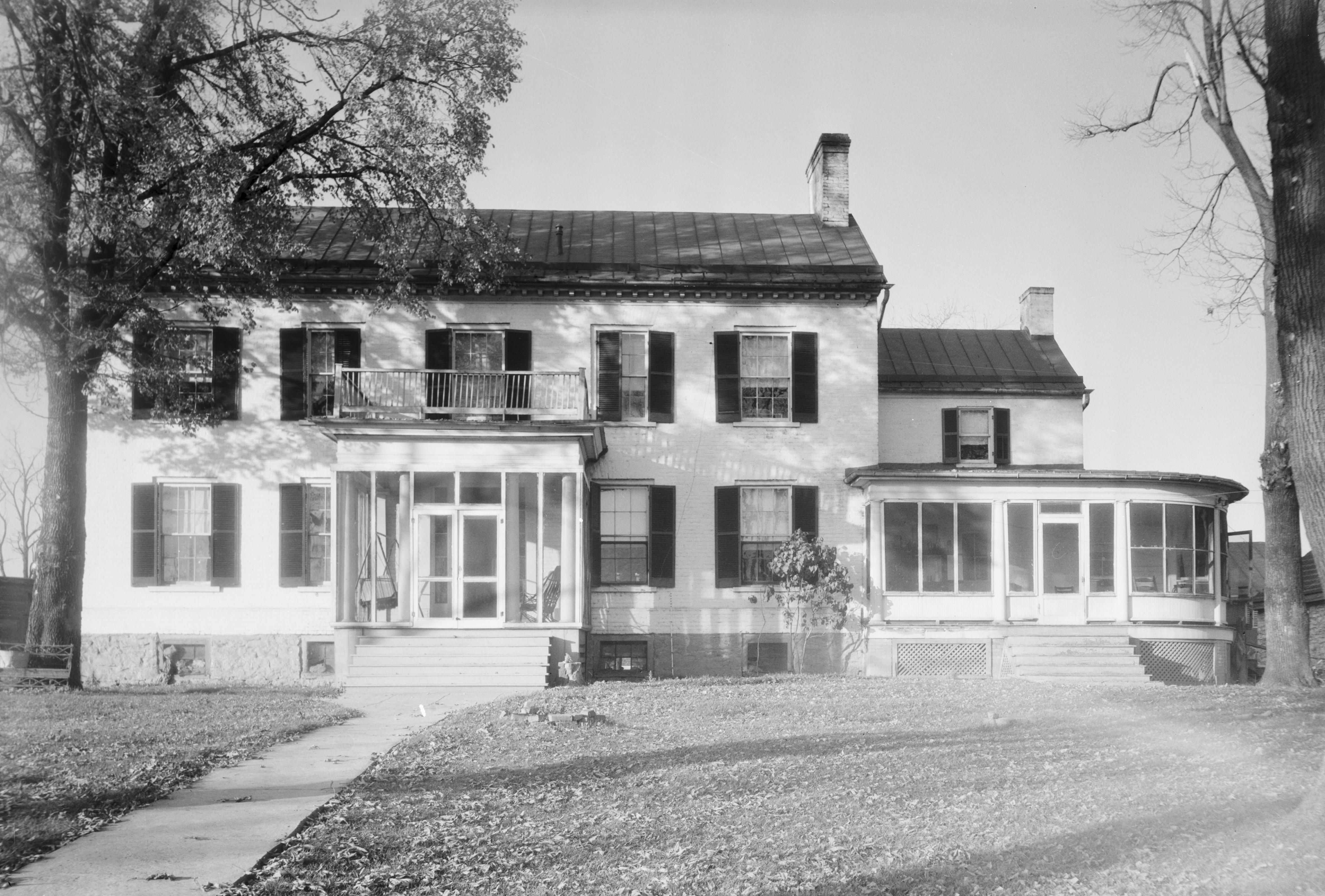 Front of Beverley, located along U.S. Route 340 near Charles Town in Jefferson County, West Virginia, United States. Built circa 1800, it is listed on the National Register of Historic Places.